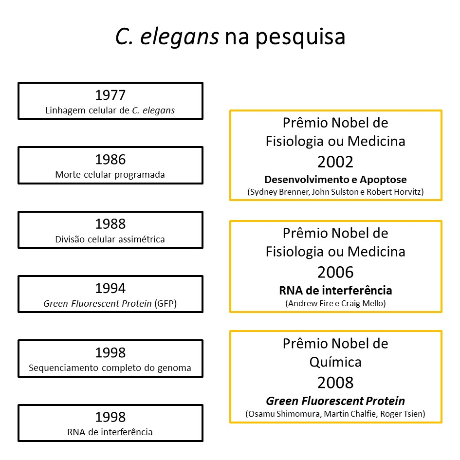 Research made until now about C. elegans